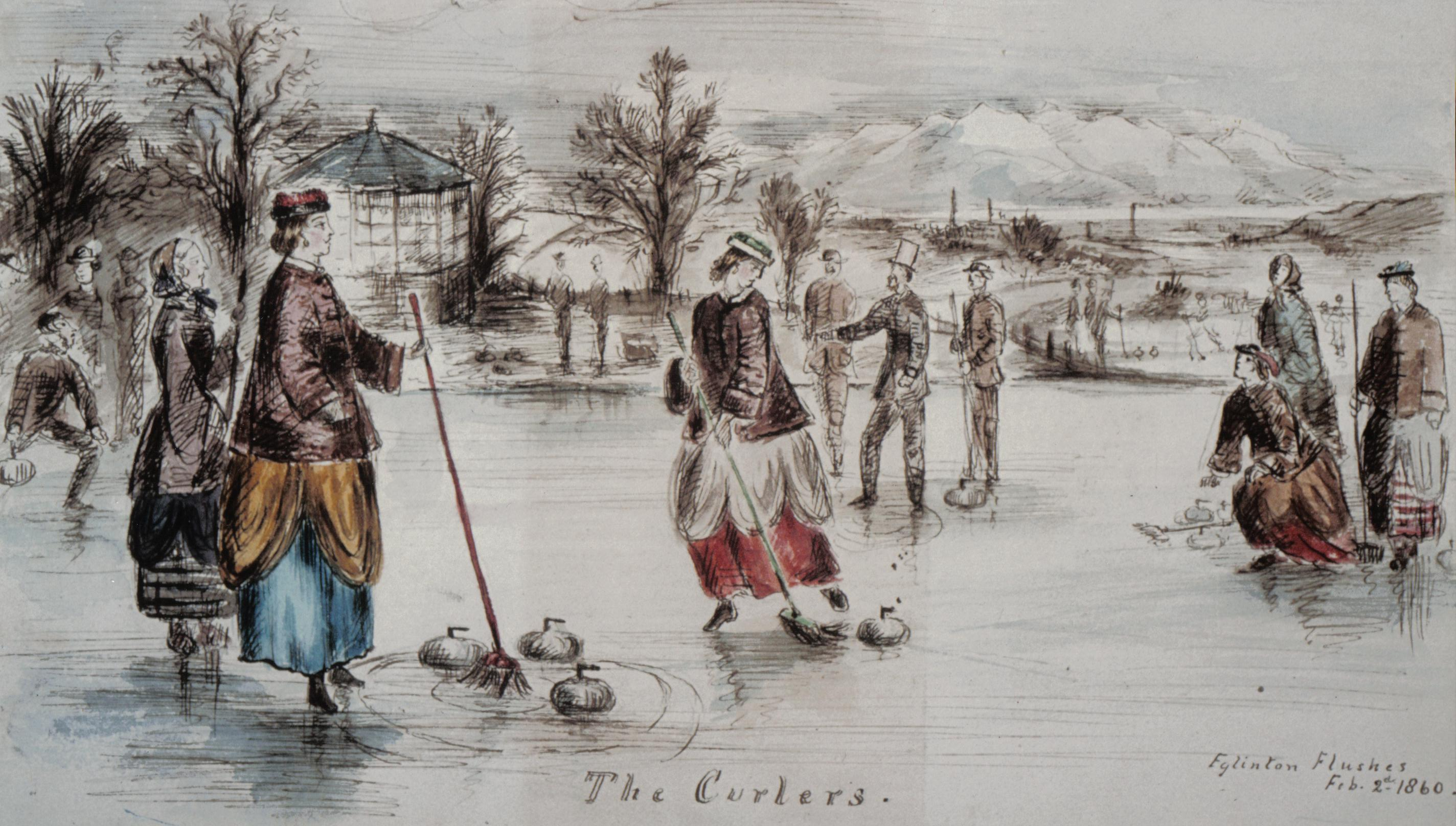 A curling match at Eglinton castle estate, North Ayrshire, Scotland.